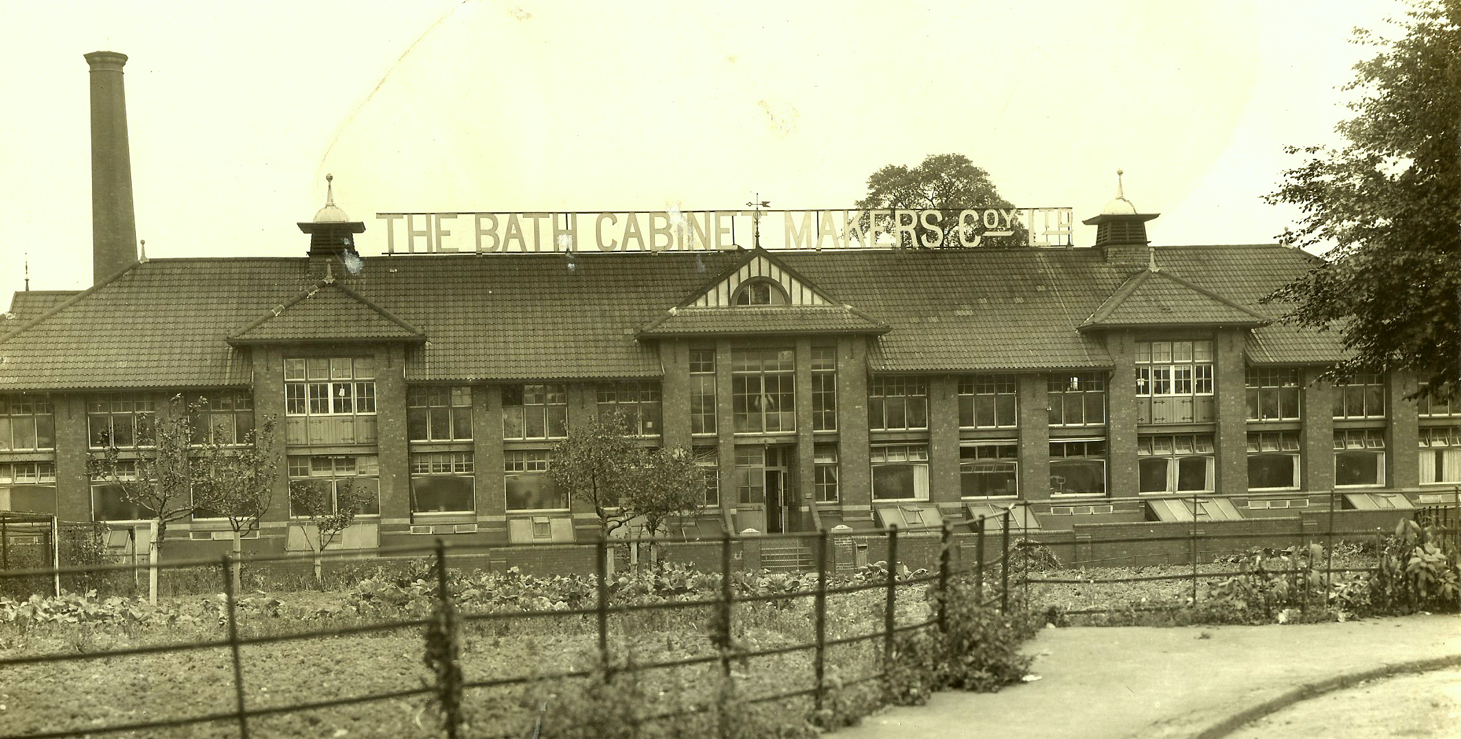 Photograph of the Bath Cabinet Makers factory in Bath, Somerset, built in 1895.